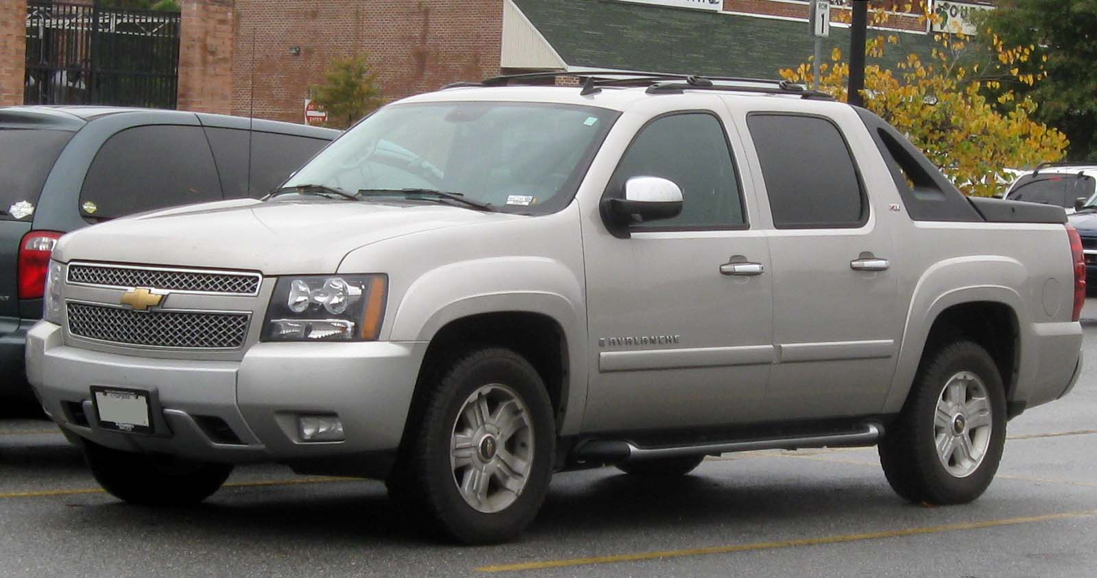 2007-2010 Chevrolet Avalanche photographed in La Plata, Maryland, USA.